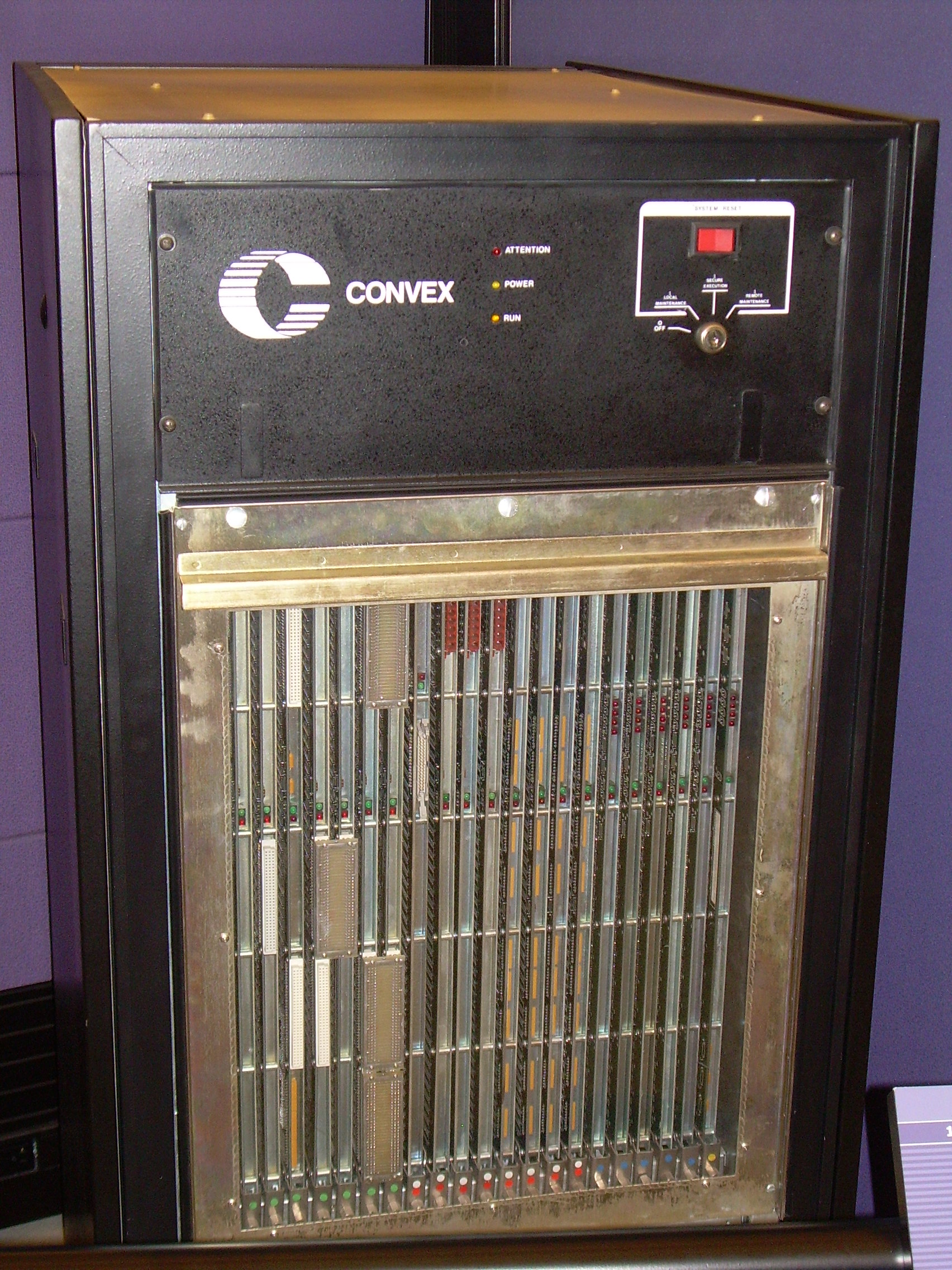 Convex C-1 (1985) - Computer History Museum (2007-11-10 22.58.44 by Carlo Nardone)